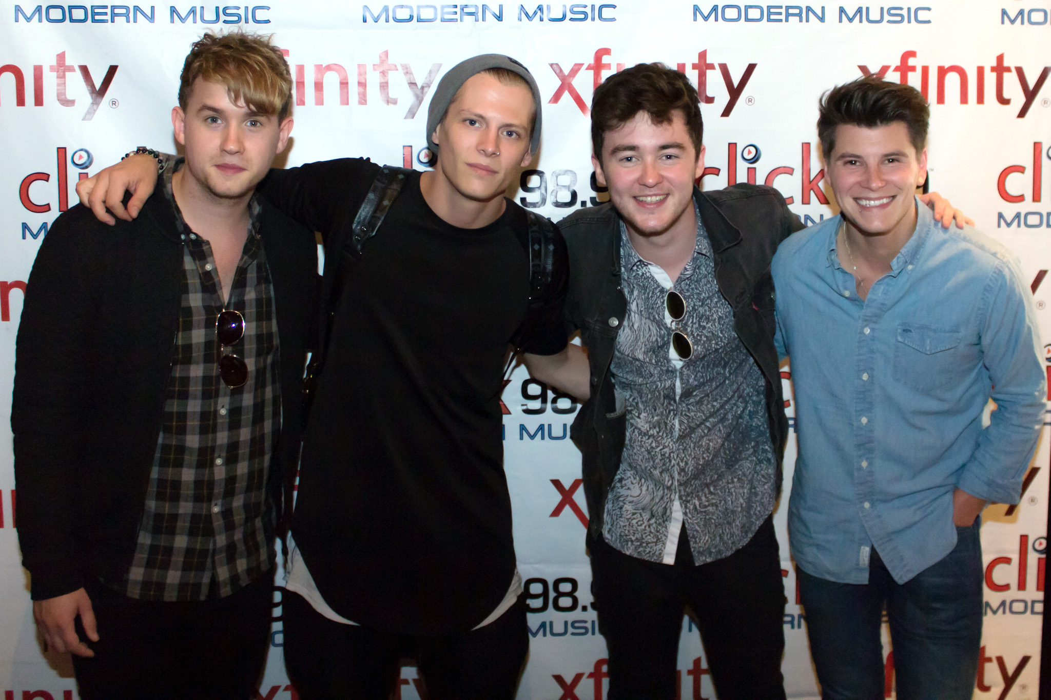 Rixton after performing at the Click 98.9 New Artist Showcase at the Seattle Hard Rock Cafe.